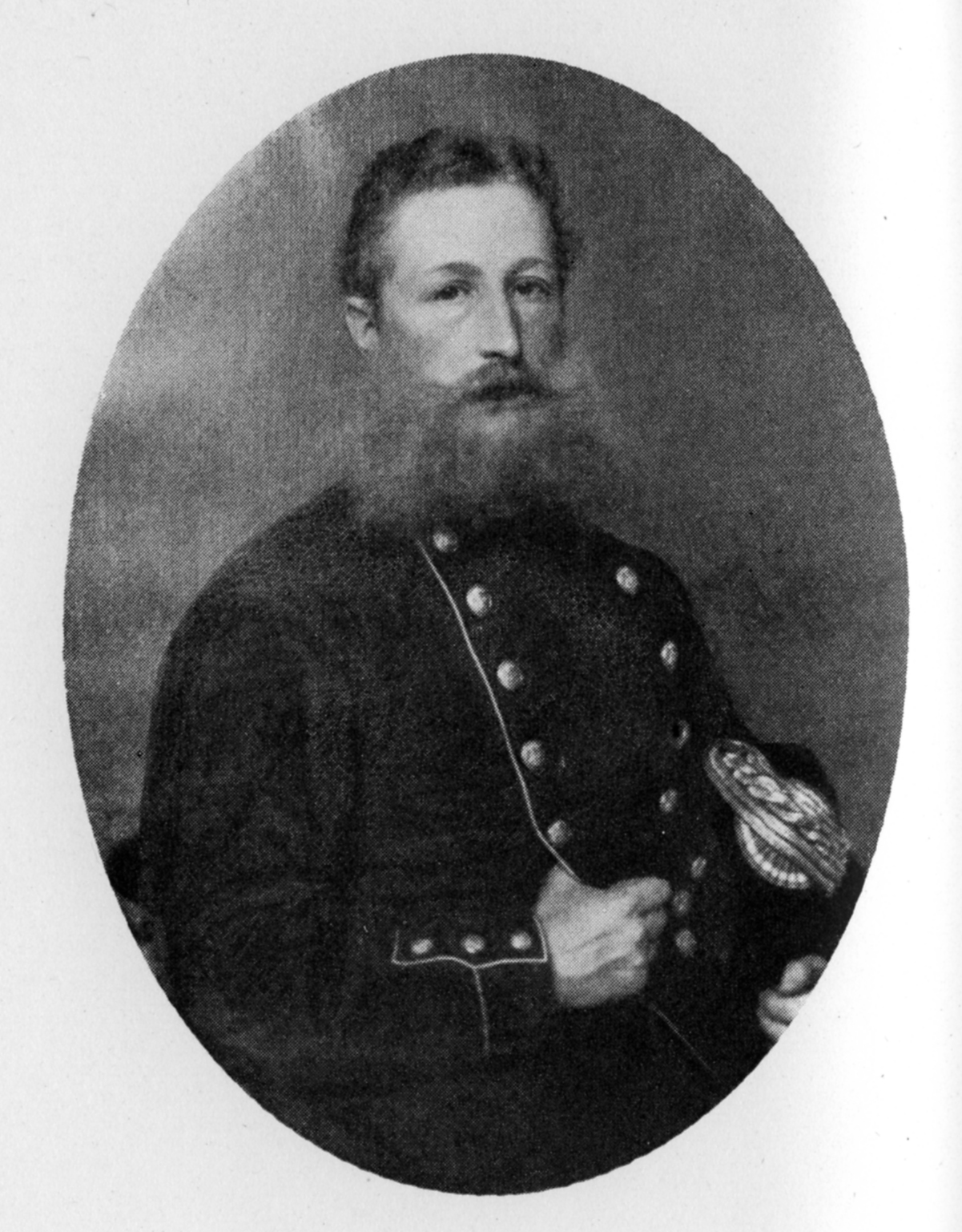 Portrait of Hans Schack Helmuth Grevenkop-Castenskiold (1838-1913), Danish nobleman and estate owner